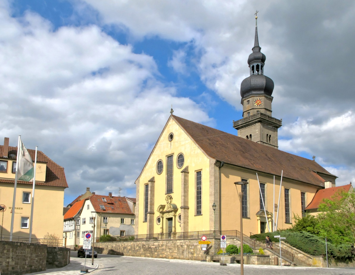 City of "Mellrichstadt", parisch church "St. Kilian"